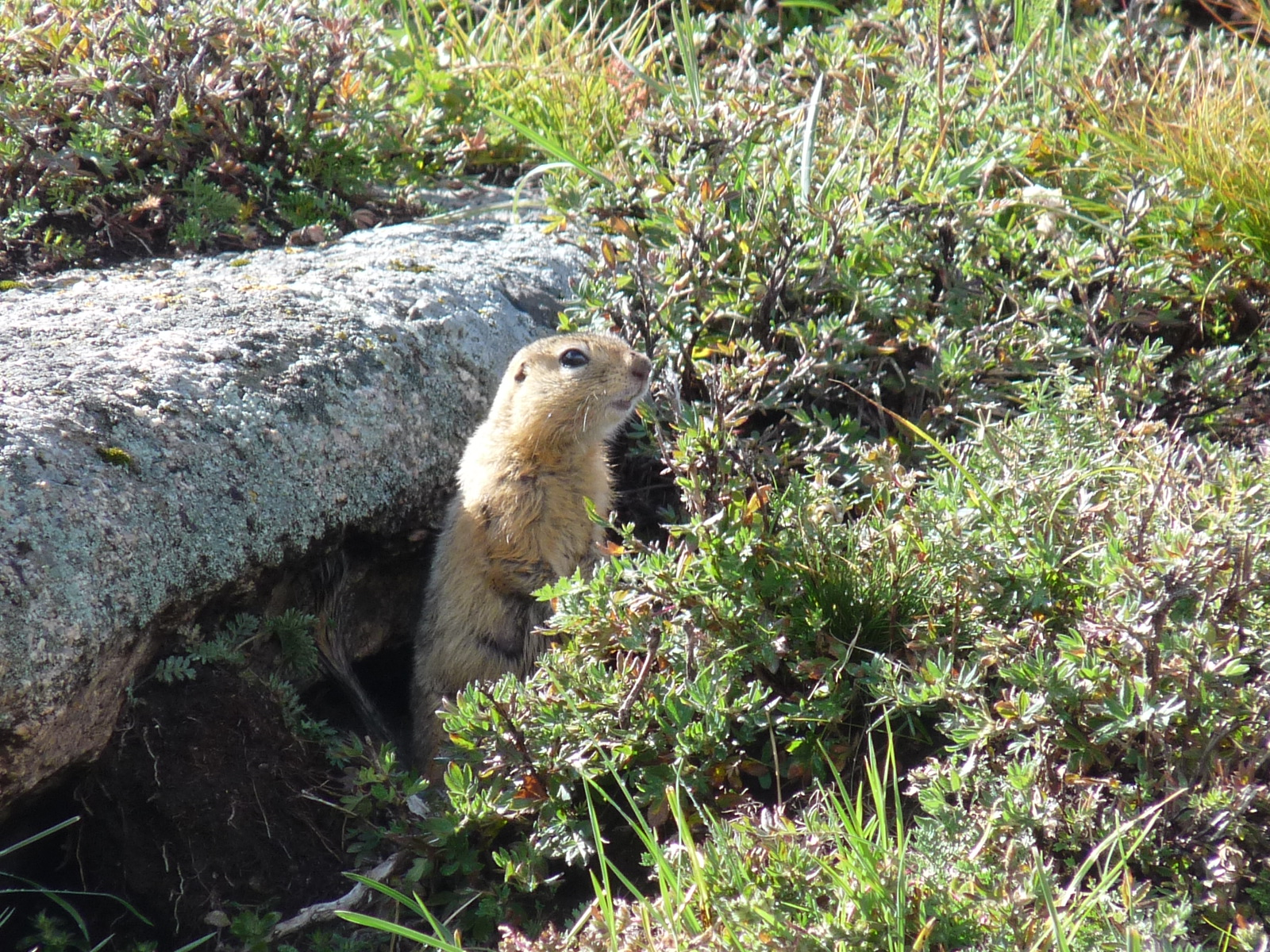 Spermophilus undulatus to its burrow, Archangai, Mongolia